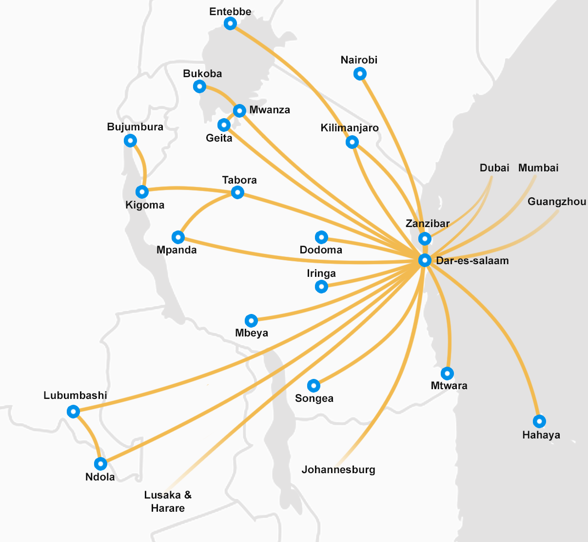 Destinations of Air Tanzania as of September 2018